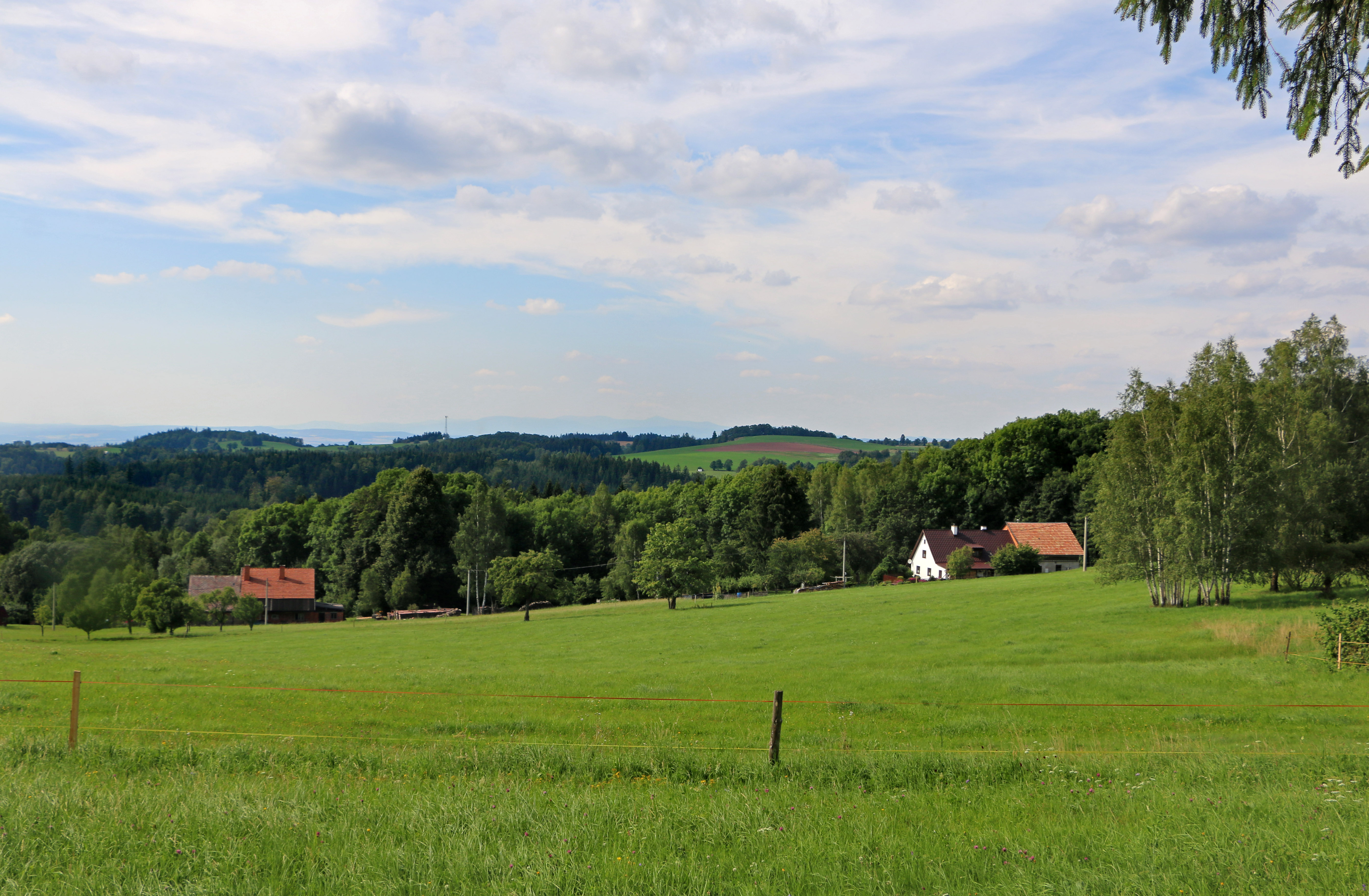 Rovenské Šediviny, part of Dobré, Czech Republic.